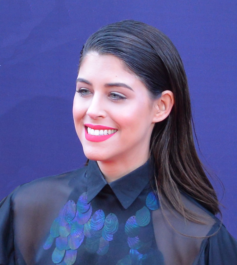 Greek singer Dimitra Papadea (Demy) on the Red Carpet Ceremony of the Eurovision Song Contest 2017 in Kyiv, Ukraine